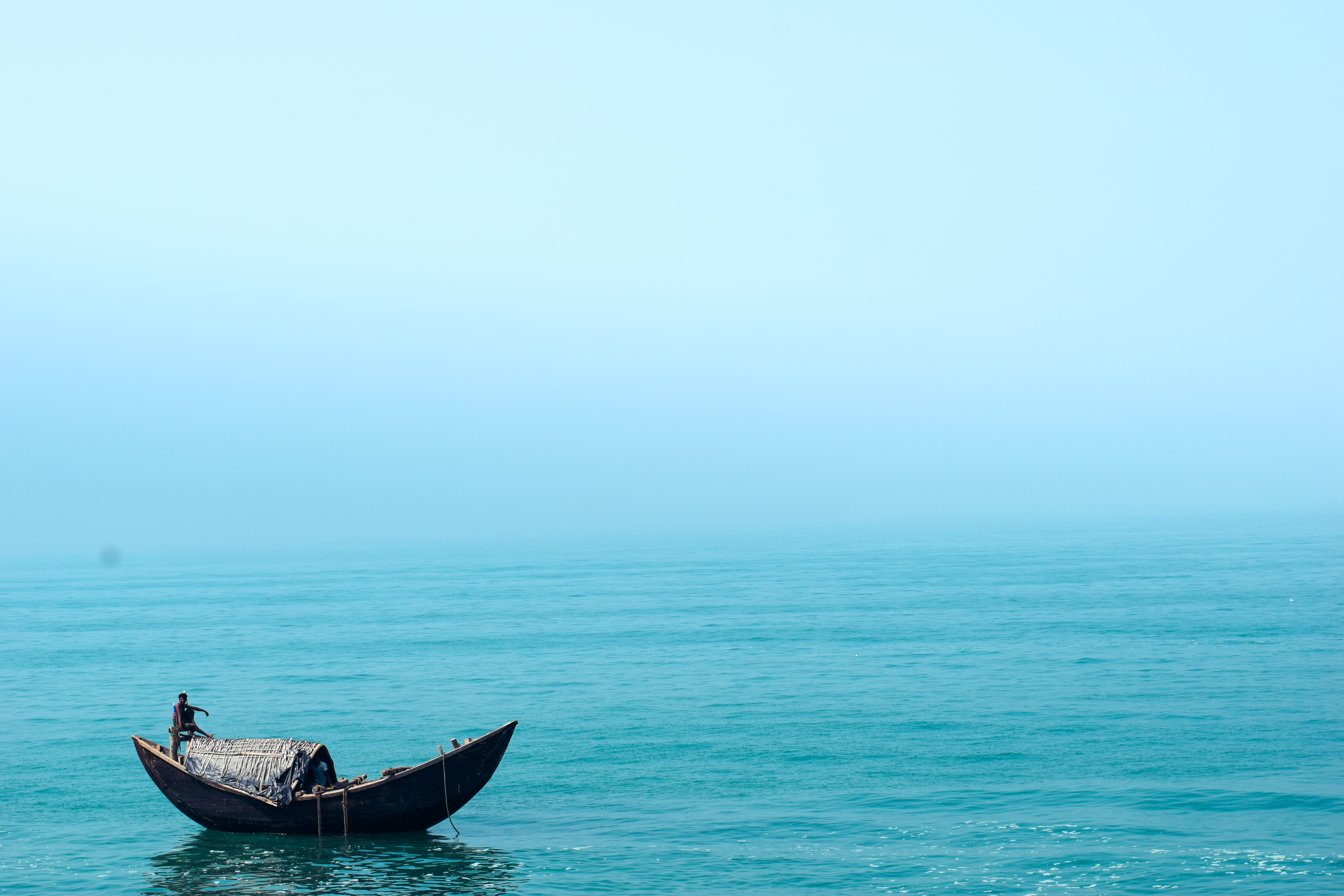 সোয়াচ অব নো গ্রাউন্ড মেরিন সংরক্ষিত এলাকা